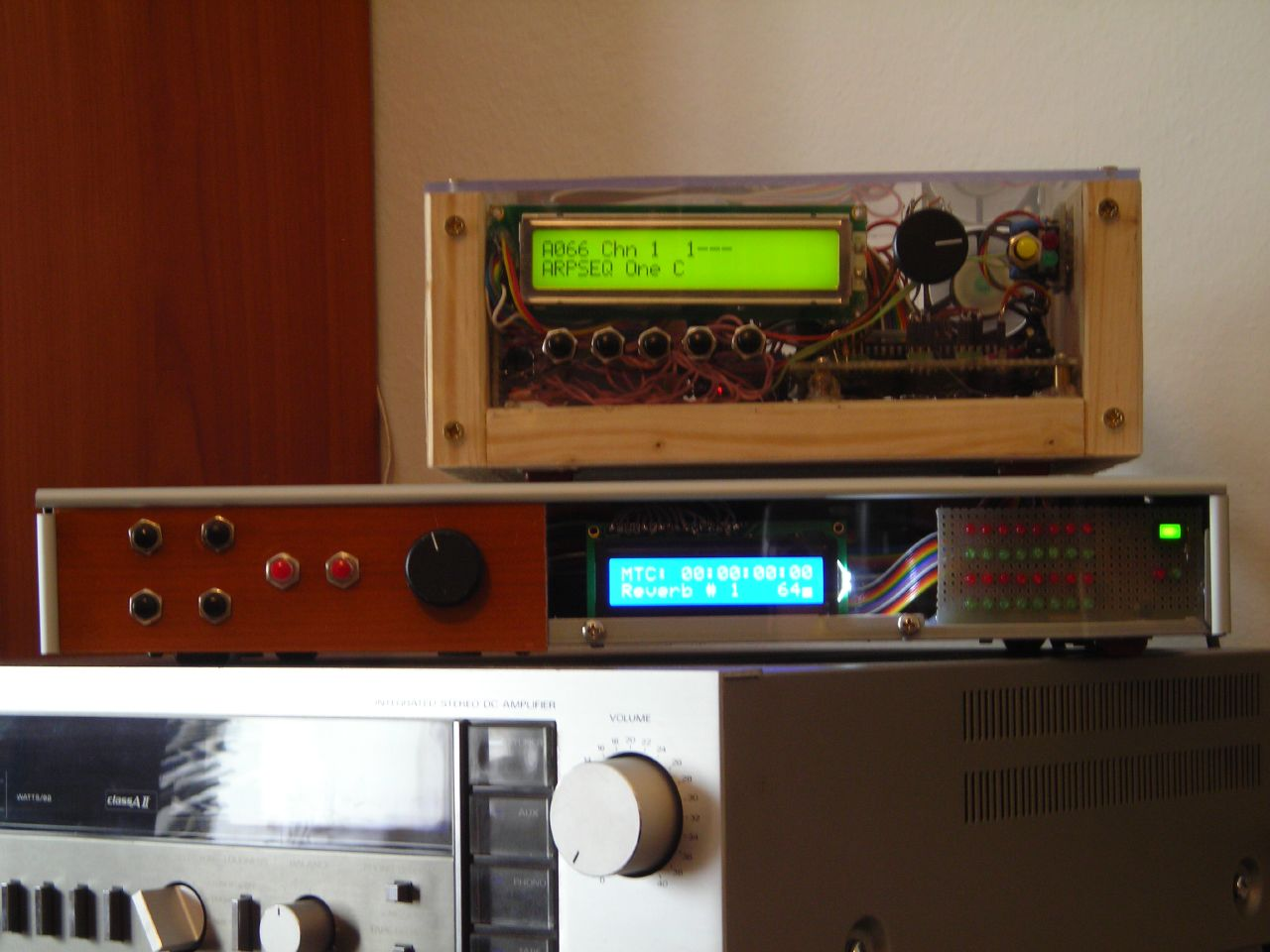 The MIDIbox SID on the top and the MIDIbox 64 MIDI controller below. DIY stuff